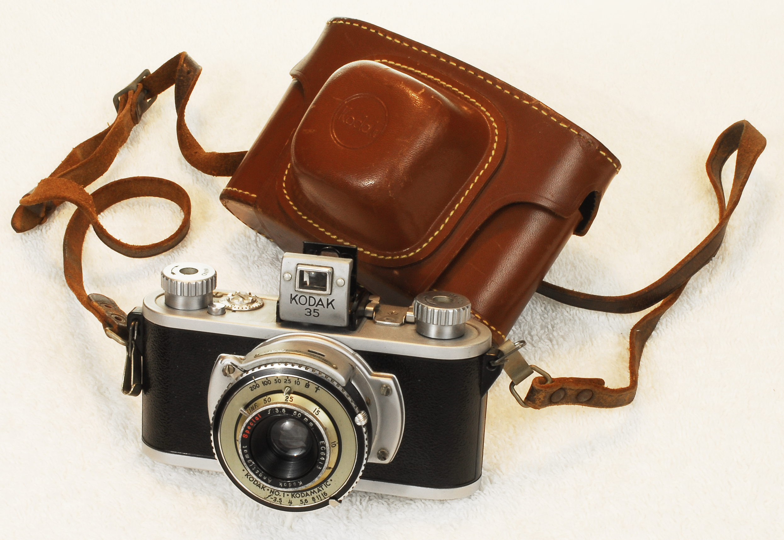 My photo of my camera taken by me free image